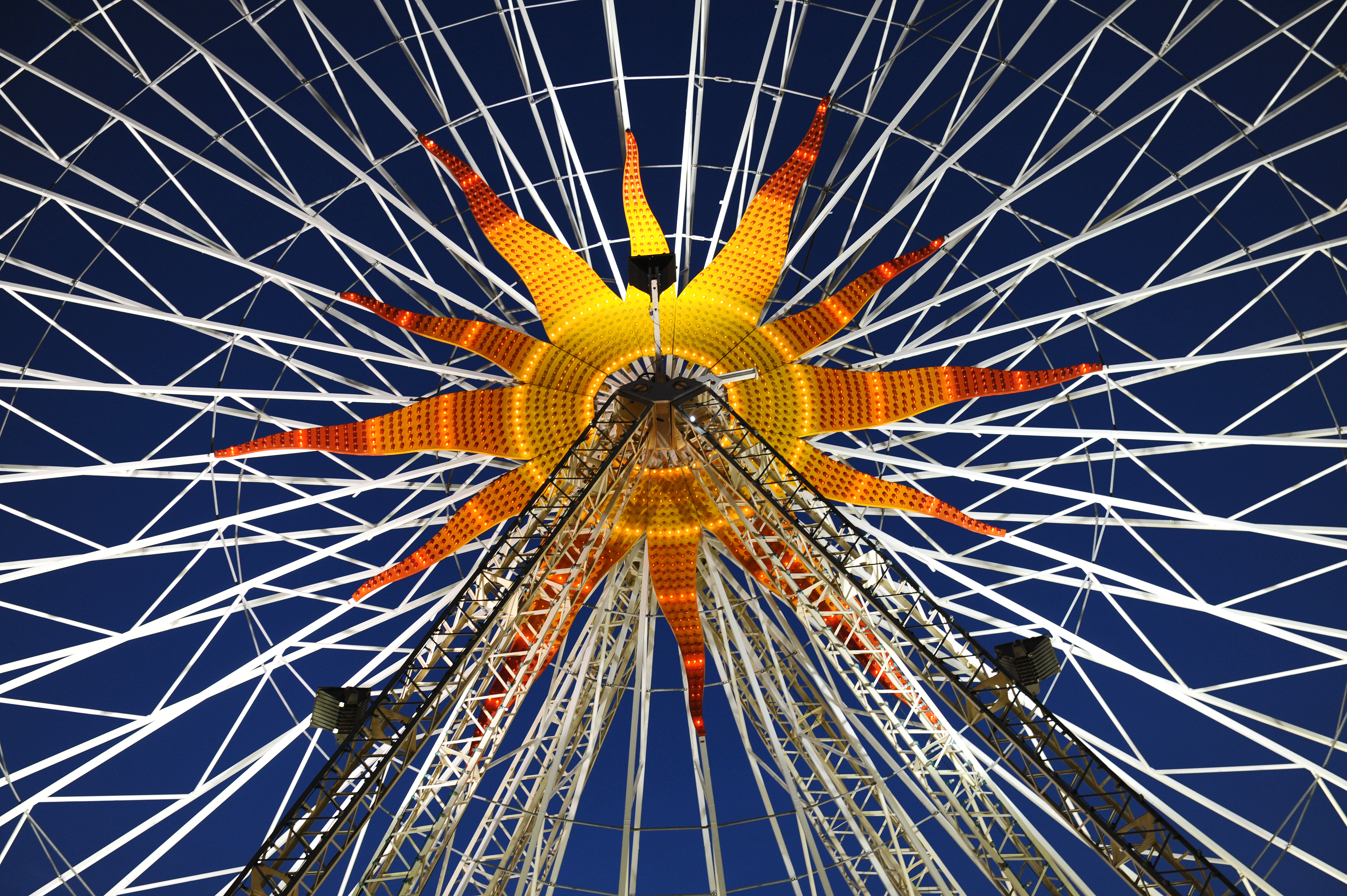 Nice, France, at night: centre of the Ferris wheel near square Masséna, December 2008